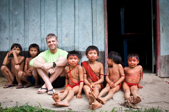 André François in the Amazon forest.